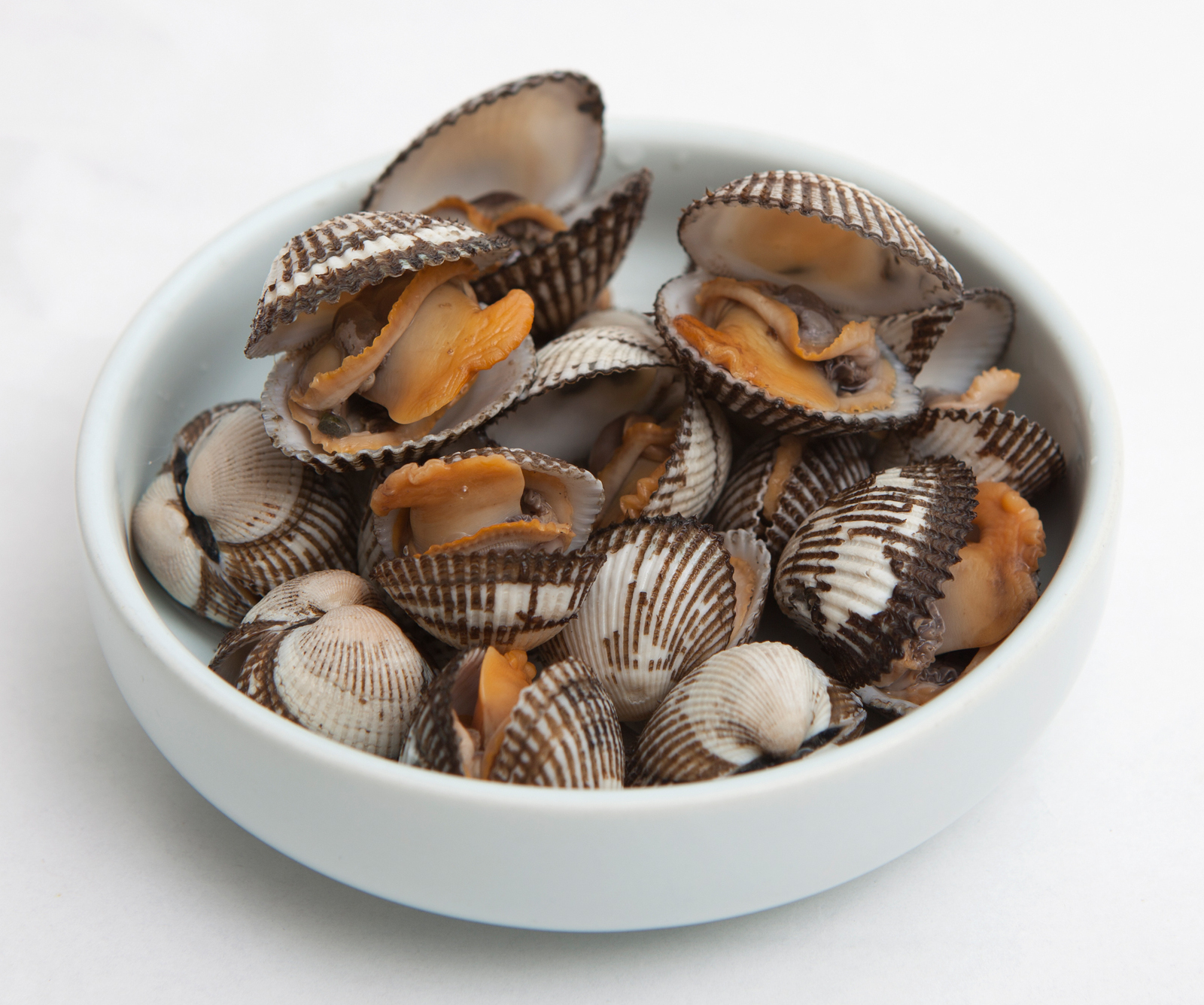 kkomak (Tegillarca granosa)